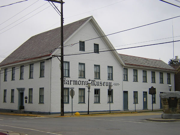 The Harmony Society warehouse (built in 1809) now the museum in Harmony, Pennsylvania